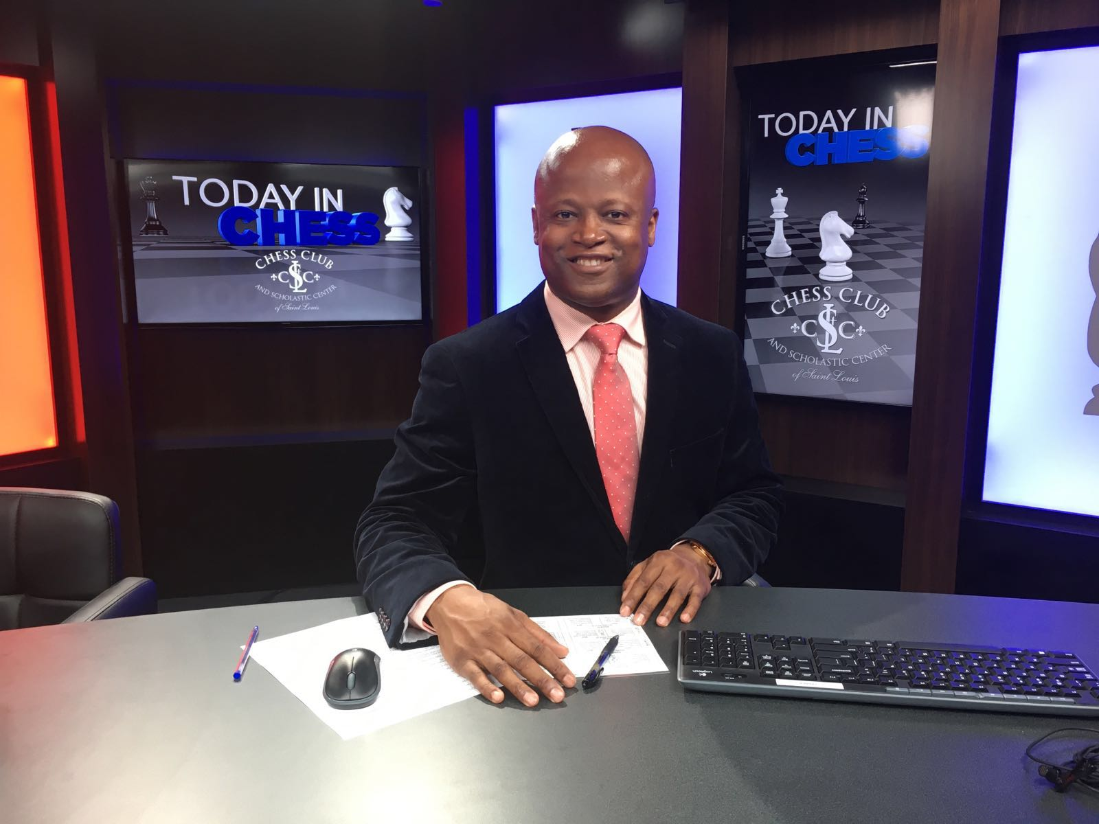 GM Maurice Ashley in the Today in Chess show.